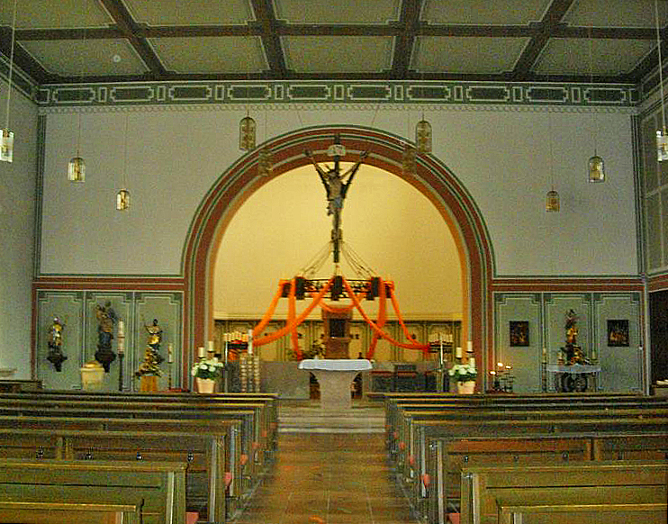 Interior of the roman catholic church in Weiskirchen, Saarland